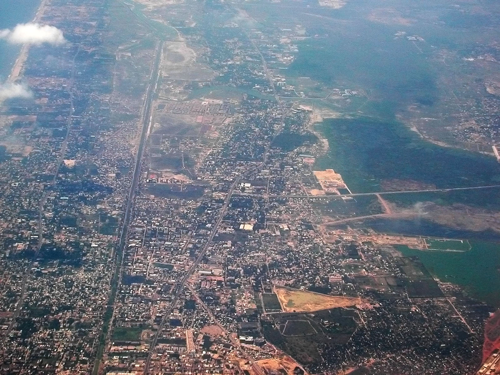 Aerial view of the Perungudi and Thuraipakkam areas of Chennai, looking south. The 3 nearly parallel features running north-south are the East Coast Road, the Buckingham Canal and the Old Mahabalipuram Road.